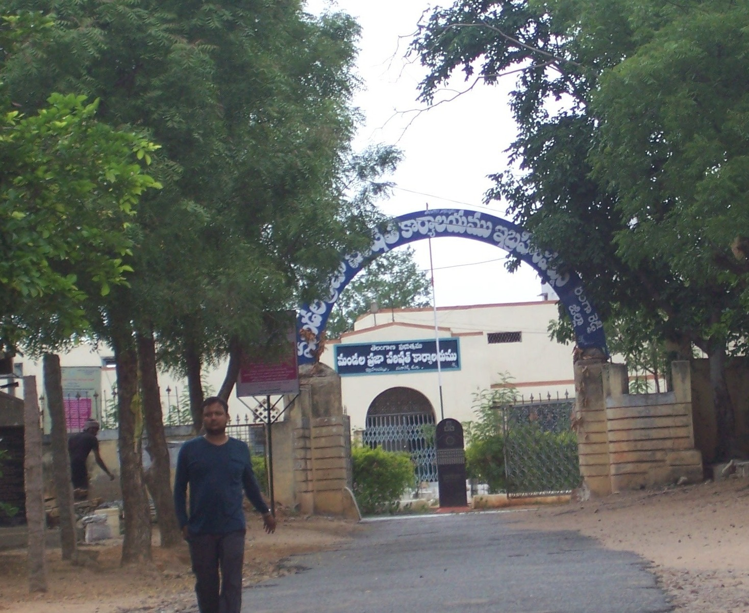 parishat office